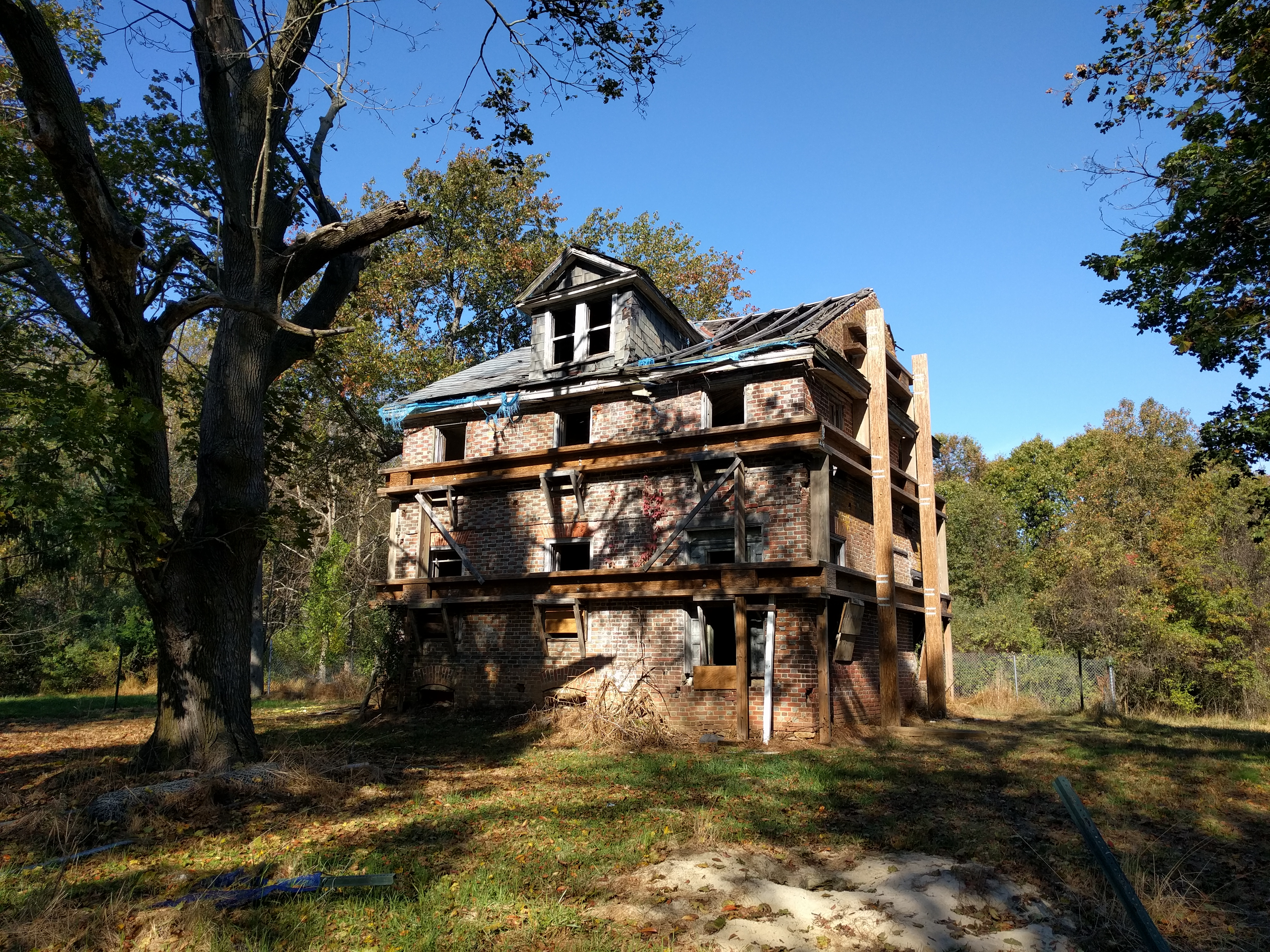 Photo showing the front of the John Rogers House within Mercer County Park in West Windsor, New Jersey.